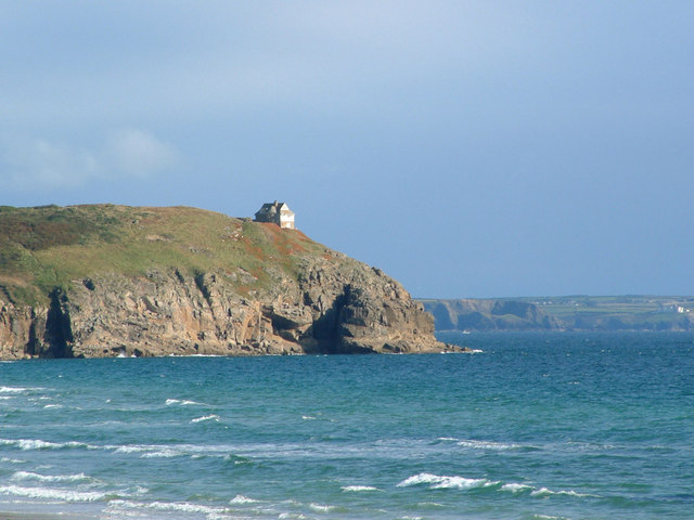 The house on Rinsey Head This extraordinarily placed "abode" is perhaps the only possible subject in square SW 59 25 GB, lying as it does in the north-east corner of the square. The house itself has been used as a location in the television series "Jonathan Creek". Perhaps one of the best views of the house is from the beach at Praa Sands, from where this photograph was taken.